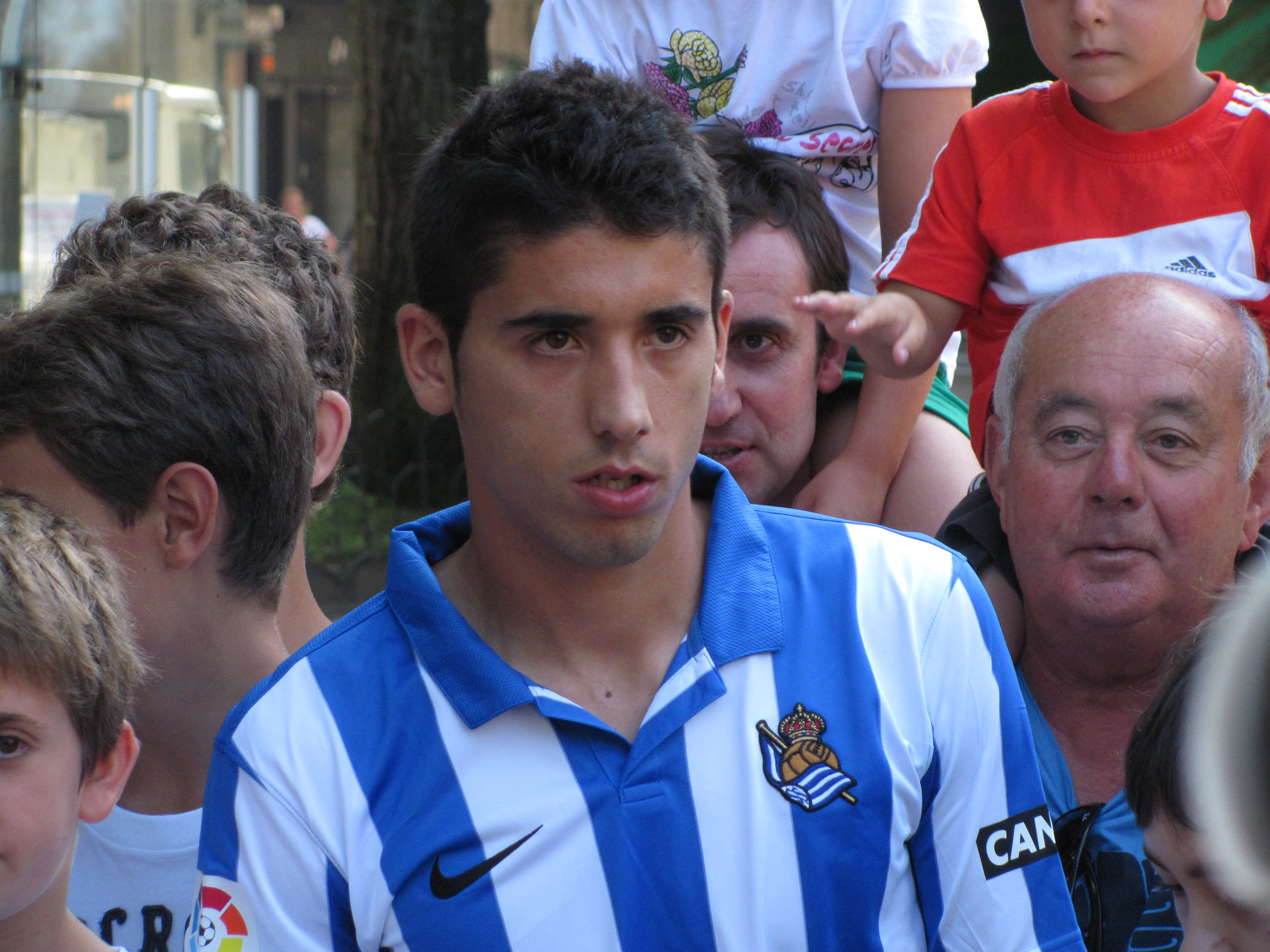 José Ángel Valdés being presentated as a new signing of Real Sociedad